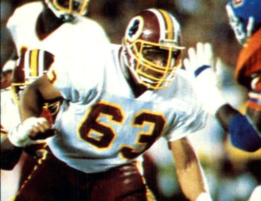 Washington Redskins guard Raleigh McKenzie pictured in a defensive play against the Denver Broncos during Super Bowl XXII.